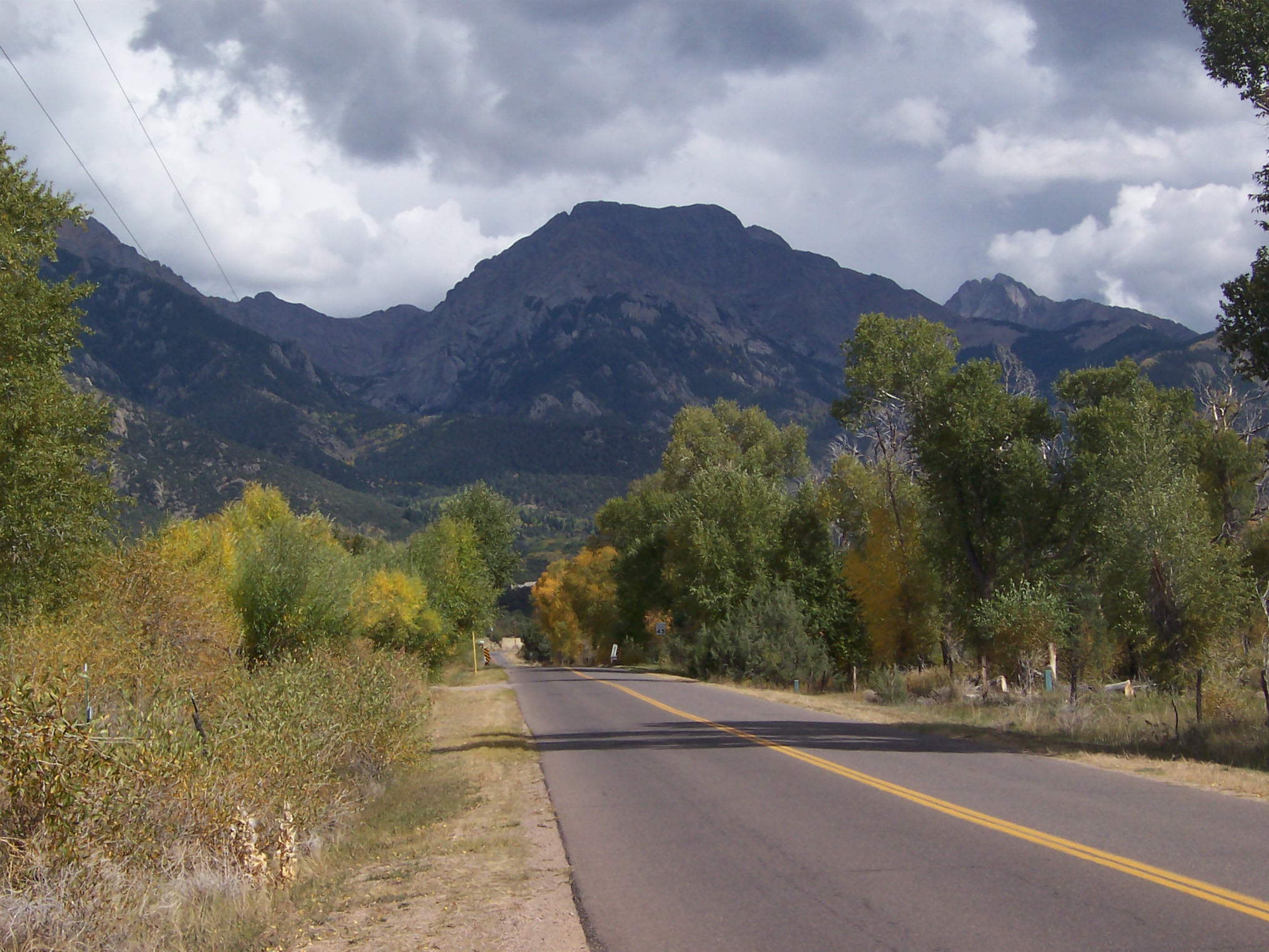 Approach to Crestone with the Crestones peaks behind — on Saguache County Road T, at its eastern end approaching the town in San Luis Valley, southern Colorado. The square topped mountain in the background is Kit Carson Mountain, and peak to the right is Crestone Peak, both of the Crestones group.